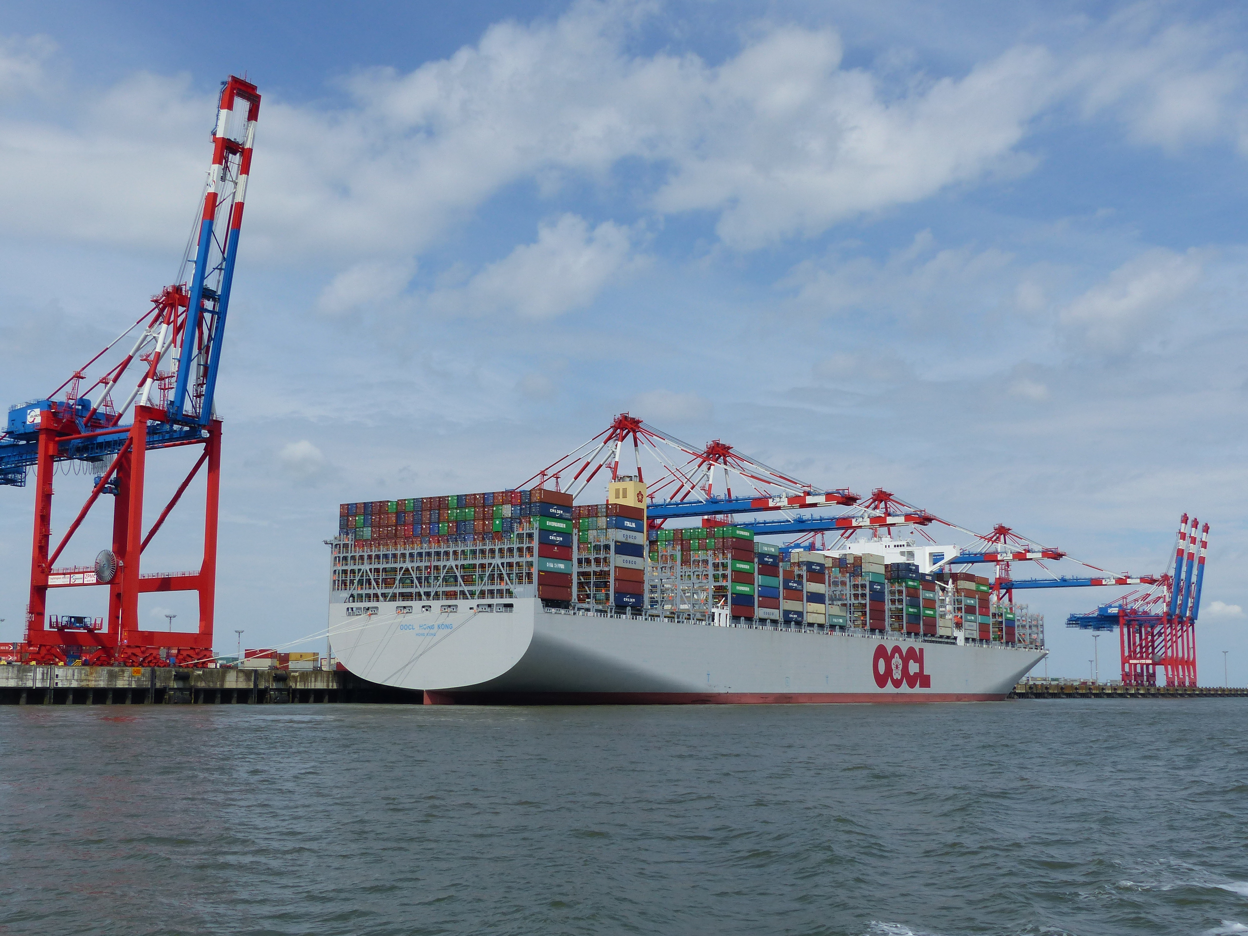 OOCL Hong Kong, the largest container vessel in the world, maiden call in Germany.